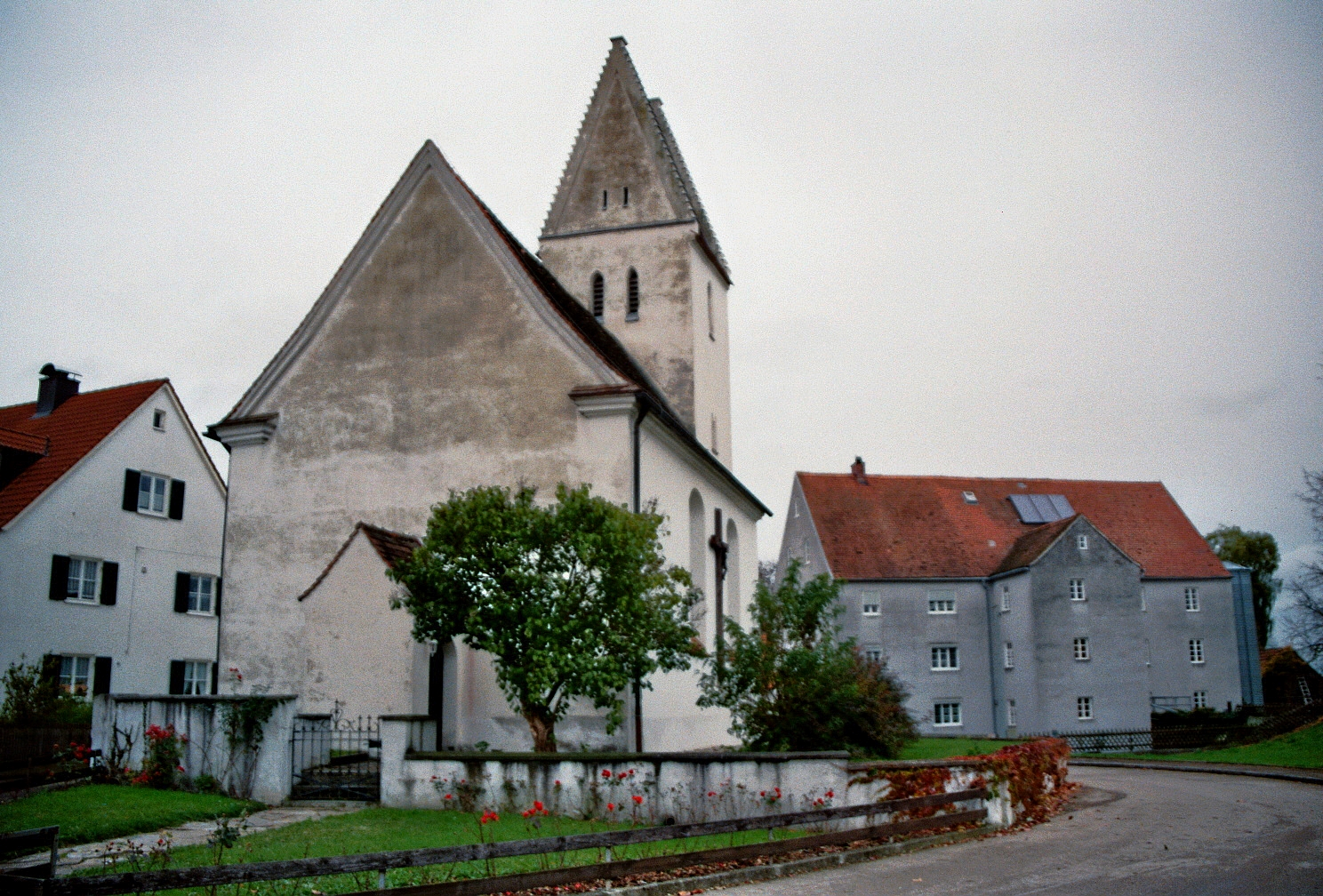 Roman Catholic St. Martin Church in Schainbach, part of Walda, Ehekirchen, District Neuburg-Schrobenhausen, Bavaria, Germany. The church is a listed cultural heritage monument.